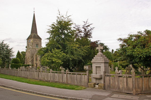 St Nicholas' Church and the Charles A Janson Memorial Drinking Fountain. See 1706099 and 1716010.